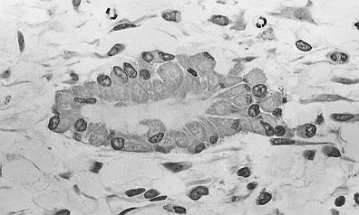 Light micrograph of osteoblasts creating osteoid in the center of a nidus.